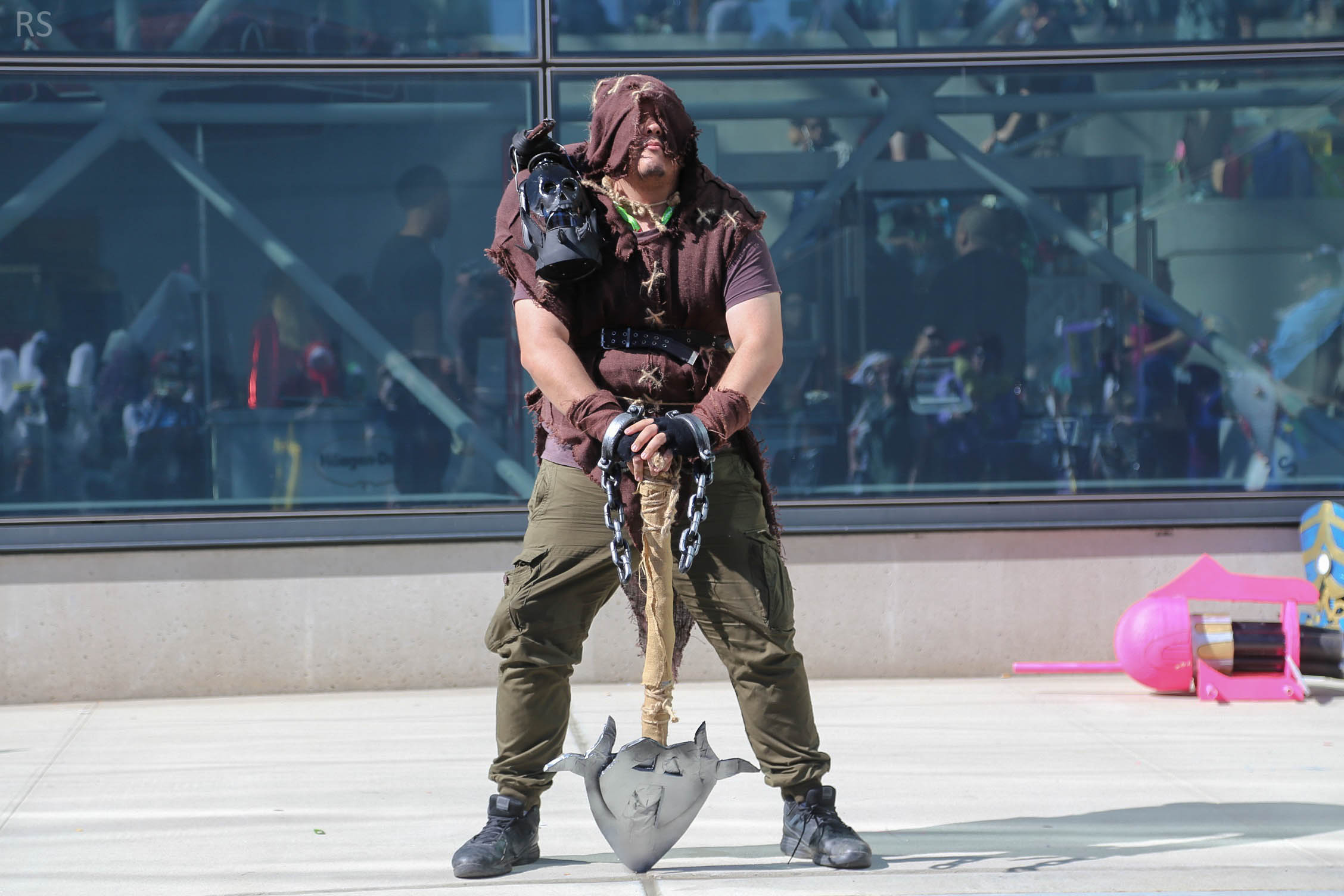 New York Comic Con 2015 - Yorick Cosplay at the 2015 New York Comic Con (NYCC 2015).